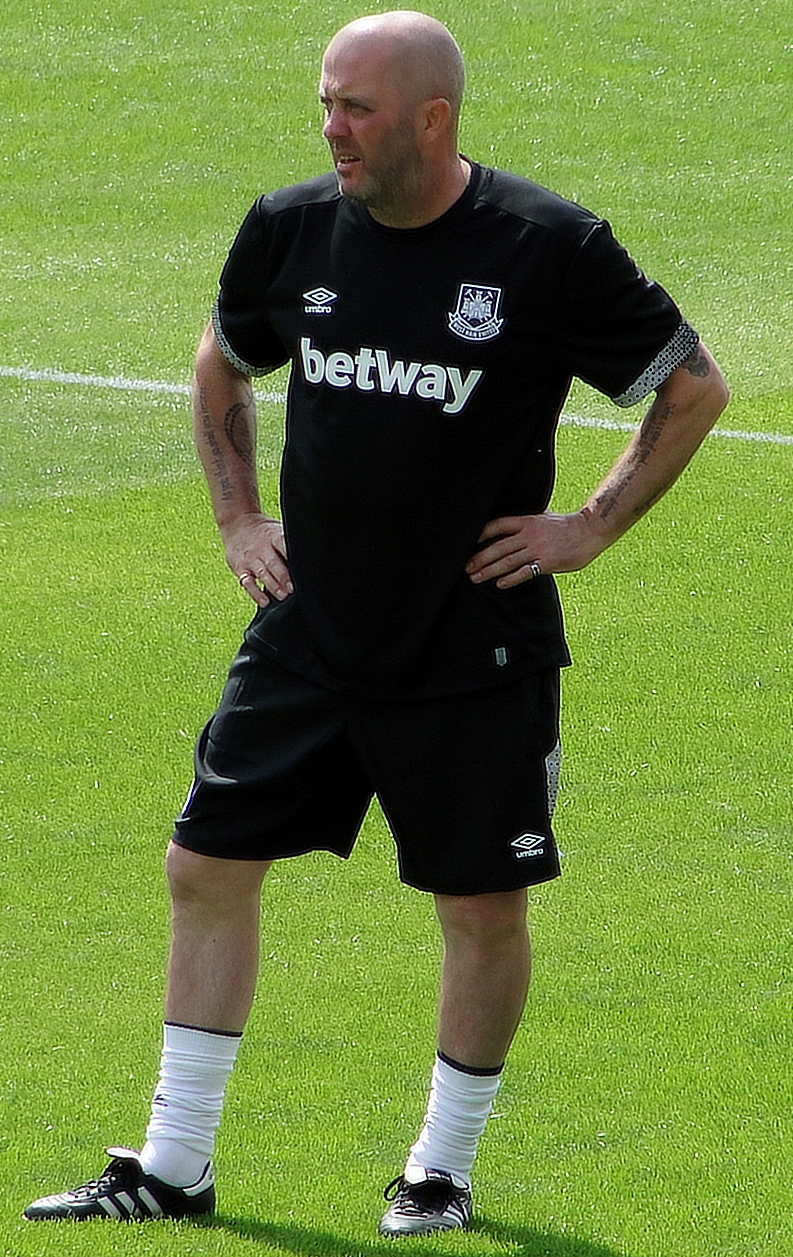 West Ham United former player, Julian Dicks, as coach for the club before their friendly game against Peterborough United at London Road, Peterborough